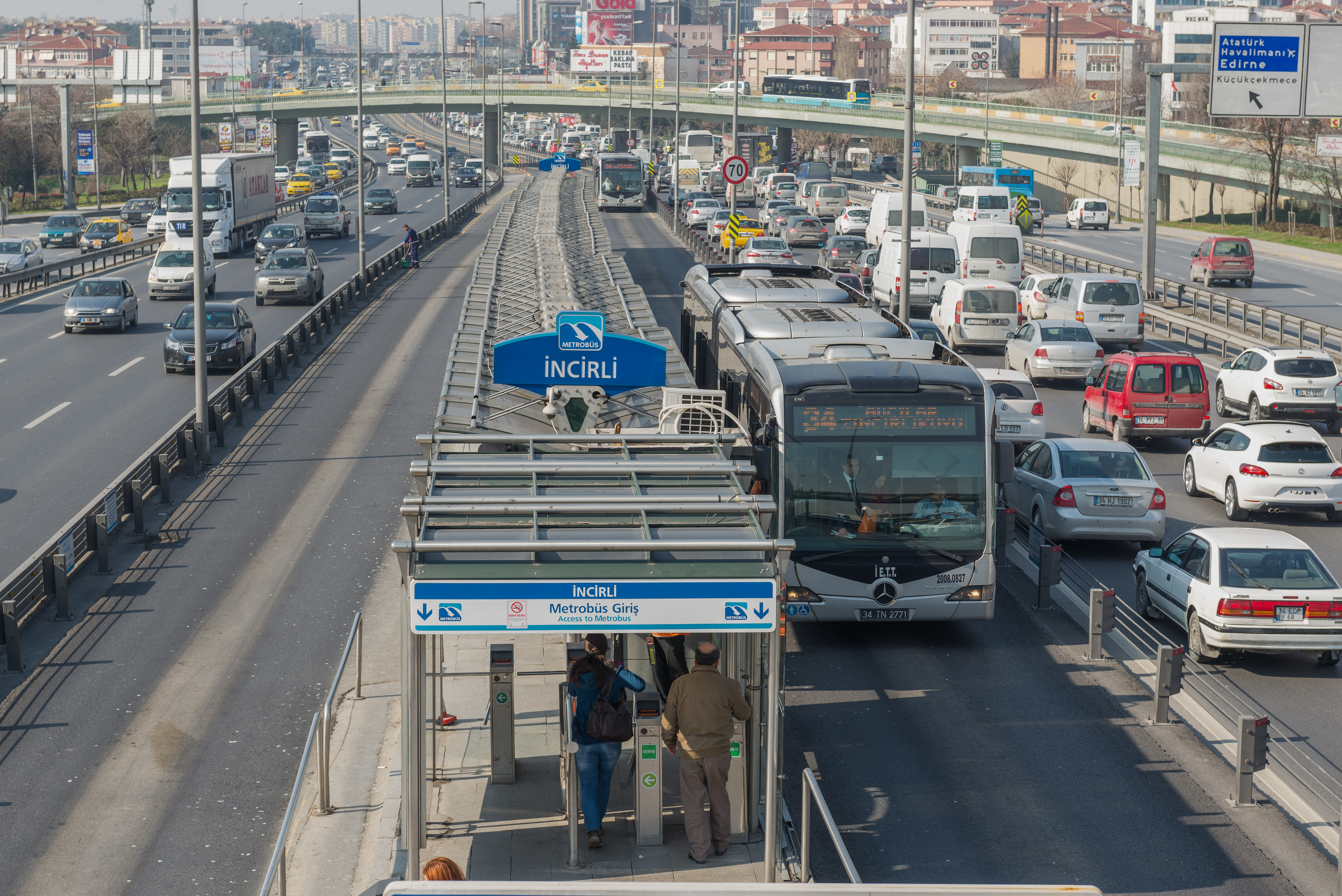 Incirli Metrobus station, Bakırköy, Istanbul, Turkey.